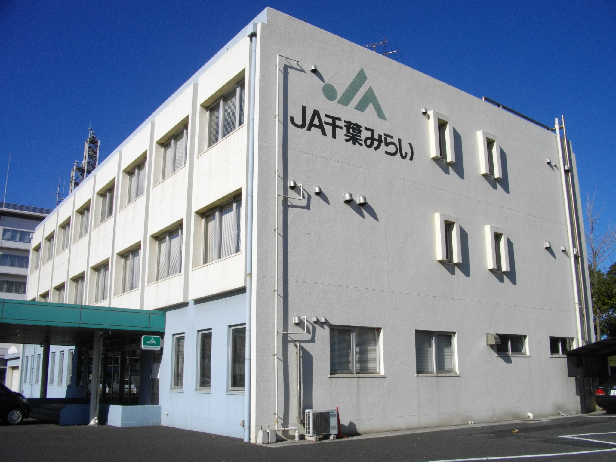 JA Chiba-MIrai Headquarters